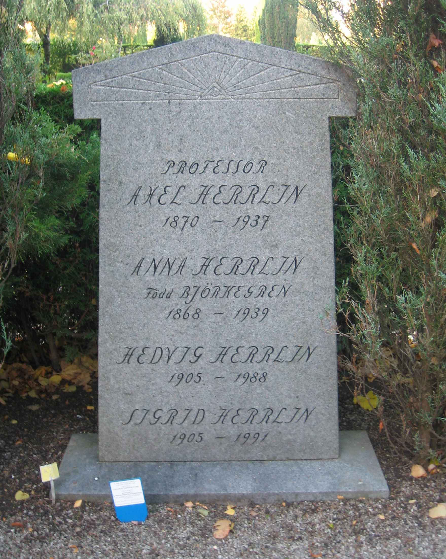 Grave of swedish professor Axel Herrlin (1870-1937). Photo taken at Norra kyrkogården, Lund, Sweden, 081007 by the uploader.